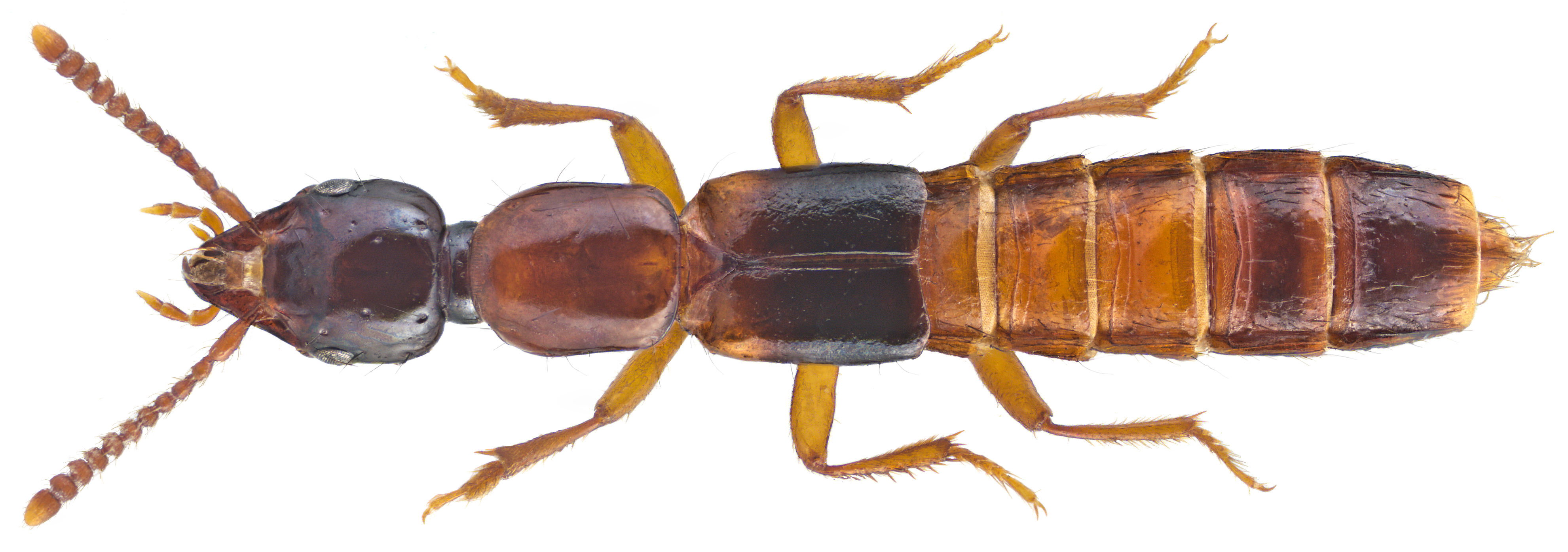 Family: Staphylinidae Size: 7,4 mm (5,5 to 9,5 mm) Origin: Europe, Asia Minor Ecology: lives under bark Location: Germany, Bavaria, Upper Franconia, Selbitz leg.det. U.Schmidt, 26.VI.1996 Photo: U.Schmidt, 2015